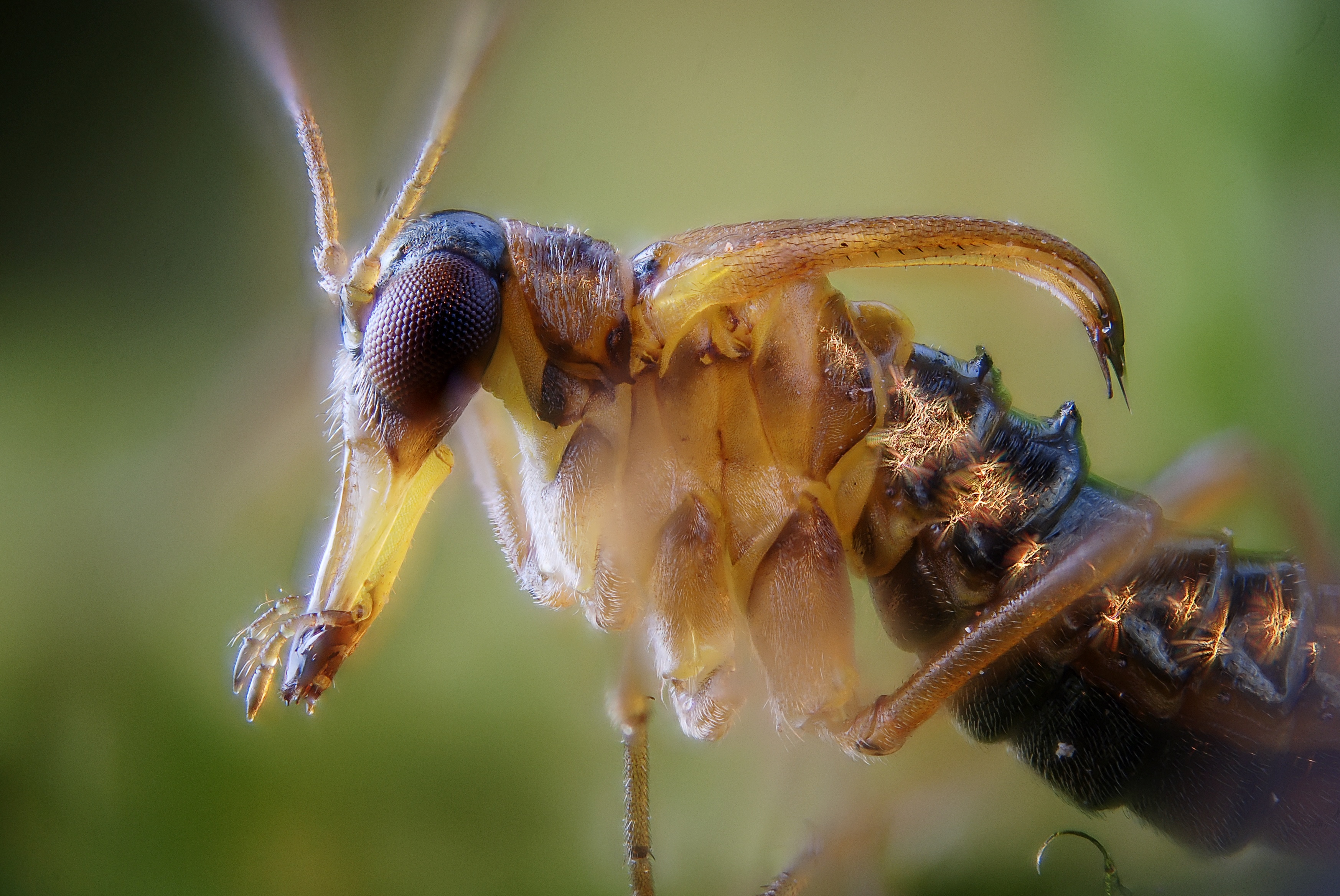 A male "snow flea" - Boreus hyemalis (Mecoptera) - lateral view Scale : The image is covering a field of ~4 mm Technical settings : focus stack of 33 images microscope objective (Nikon achromatic 10x 160/0.25) mounted directly on the camera body (+30mm extention from the adapter)